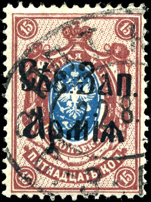 Army of the Northwest, Narva. 15k stamp. 1919. scanned February 2005 by User:Stan Shebs; These stamps are known to have been heavily counterfeited, and the authenticity of this particular stamp is unknown.